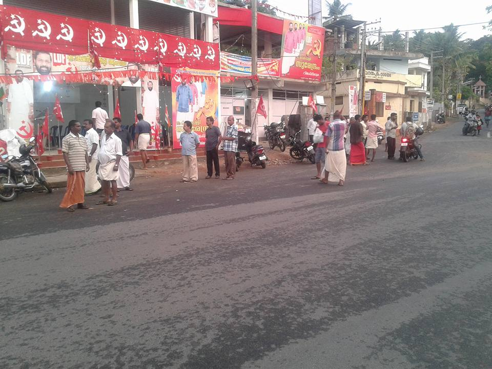 pulayanar kotta jn